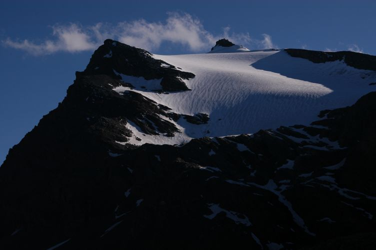 Pta Basei, Italy